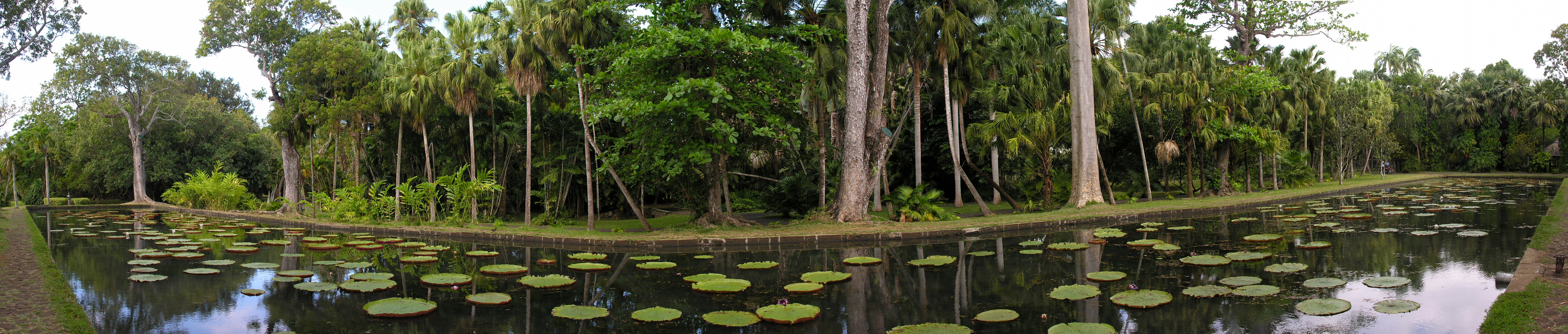 The giant water lilies (Victoria amazonica) in Pamplemousse Botanical Garden, Mauritius.